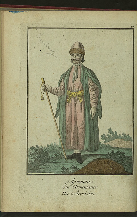 Armenian man